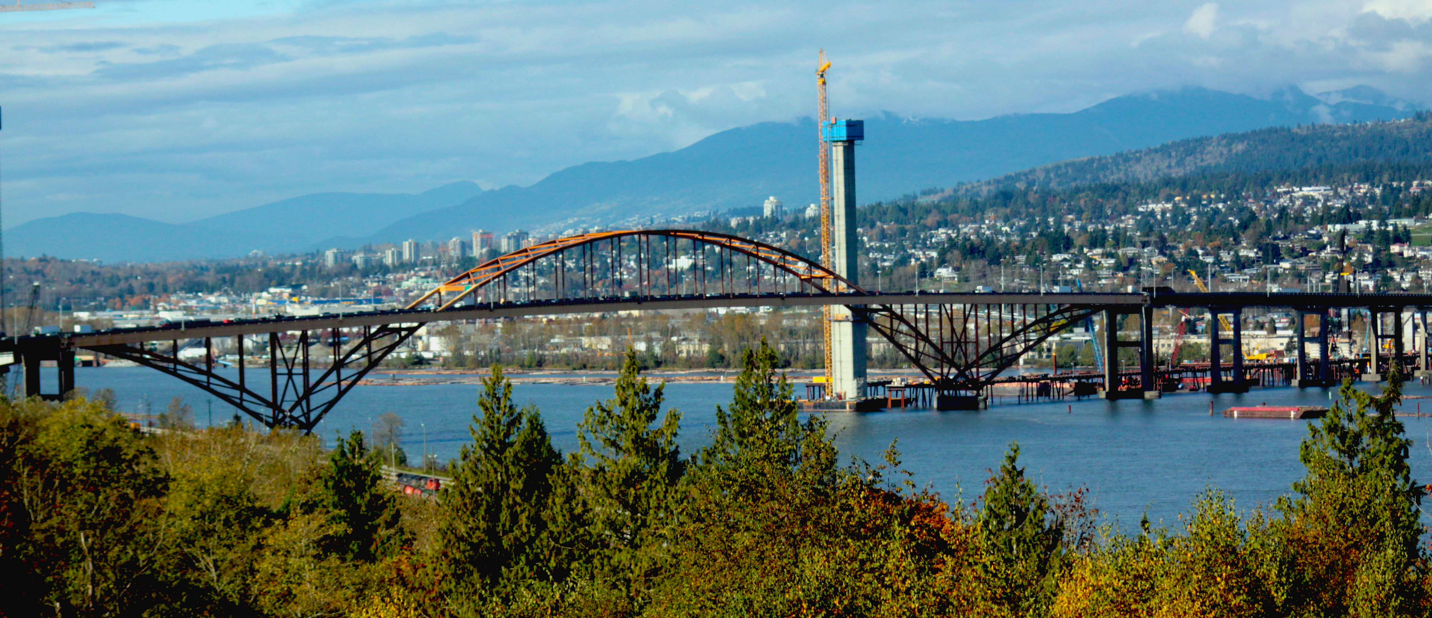 Bridge linking Surrey and Coquitlem BC over the Fraser River, view of new replacement bridge construction in back ground